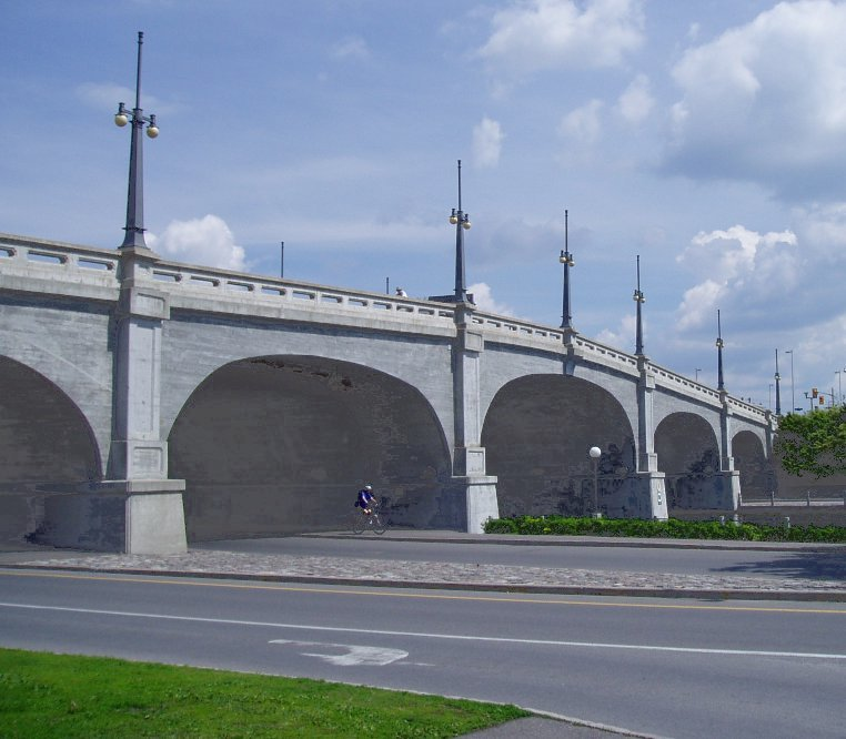 Taken by SimonP in June 2005